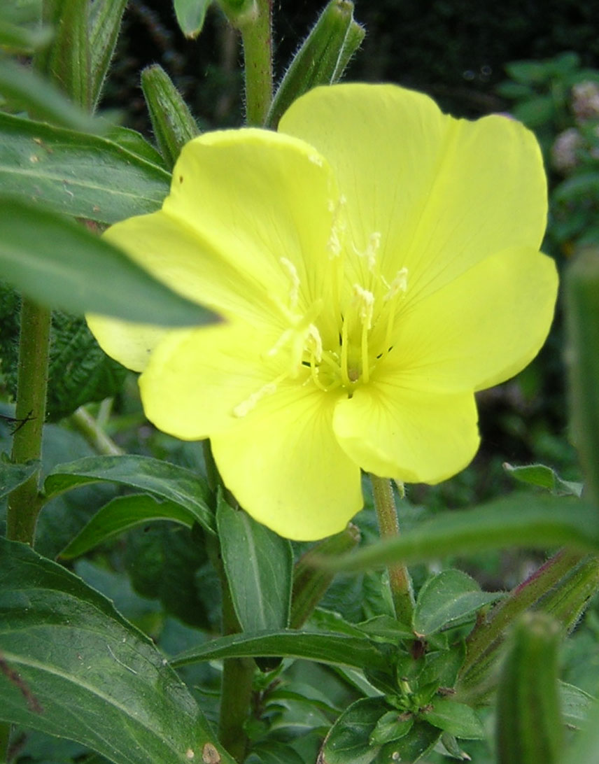 Photo of an evening primrose, showing the flower, leaves and seed pods in the background. No idea what species, but taken in England and grown from seed packet. Taken by Tarquin.